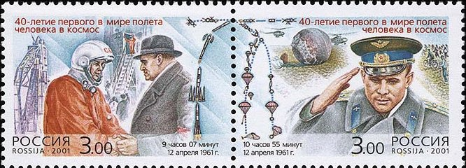 Stamps of Russia, 40th anniversary of the man's first space flight, April 12, 2001, se-tenant.